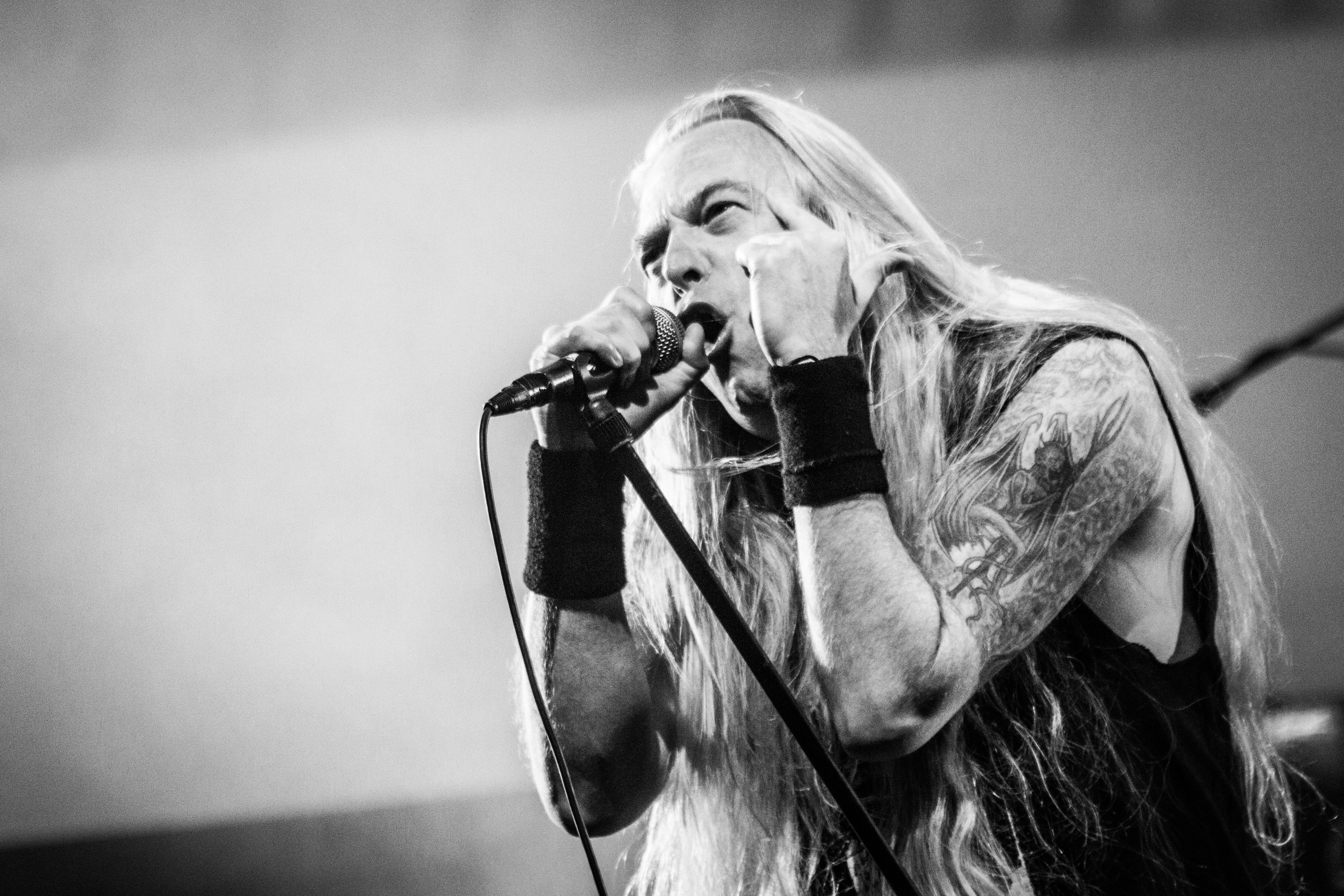 Memoriam live at Roadburn Festival, Tilburg, April 2017